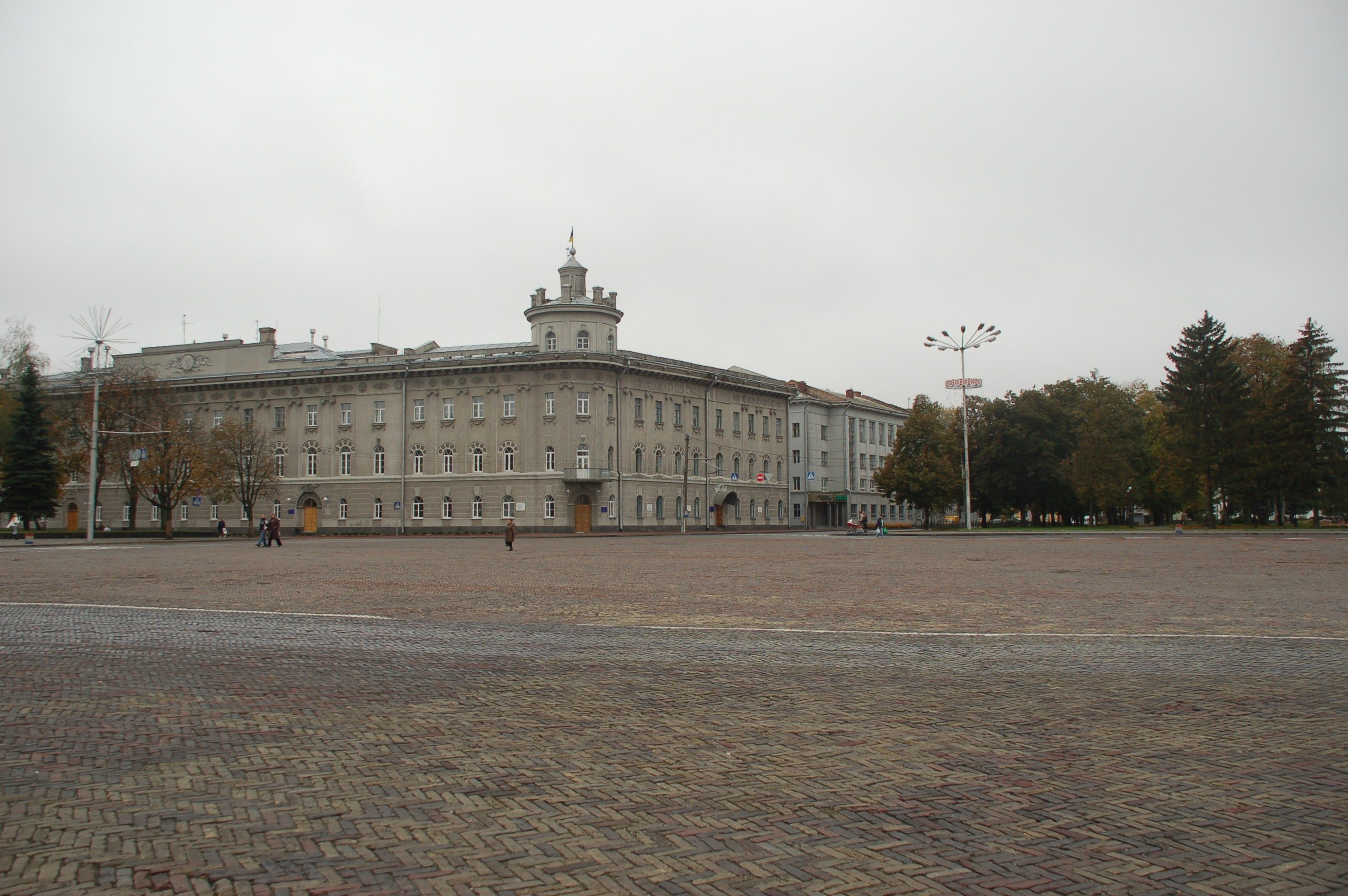 A view of the Red Square in Chernihiv